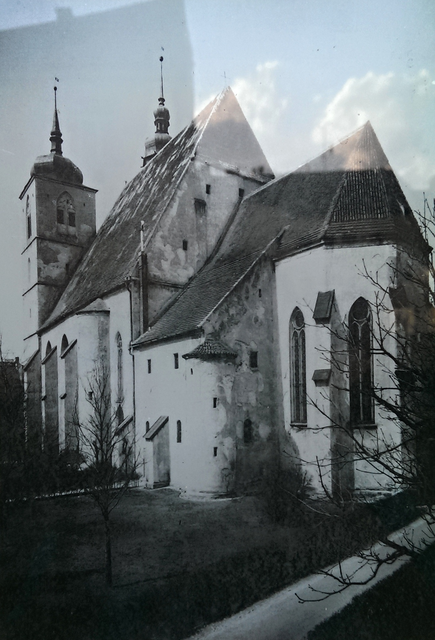 Jihlava, Church of Saint James the Elder, photo